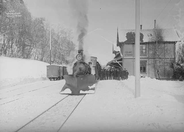 Nestun Station on the Vestfold Line and the Holmestrand–Vittingfoss Line